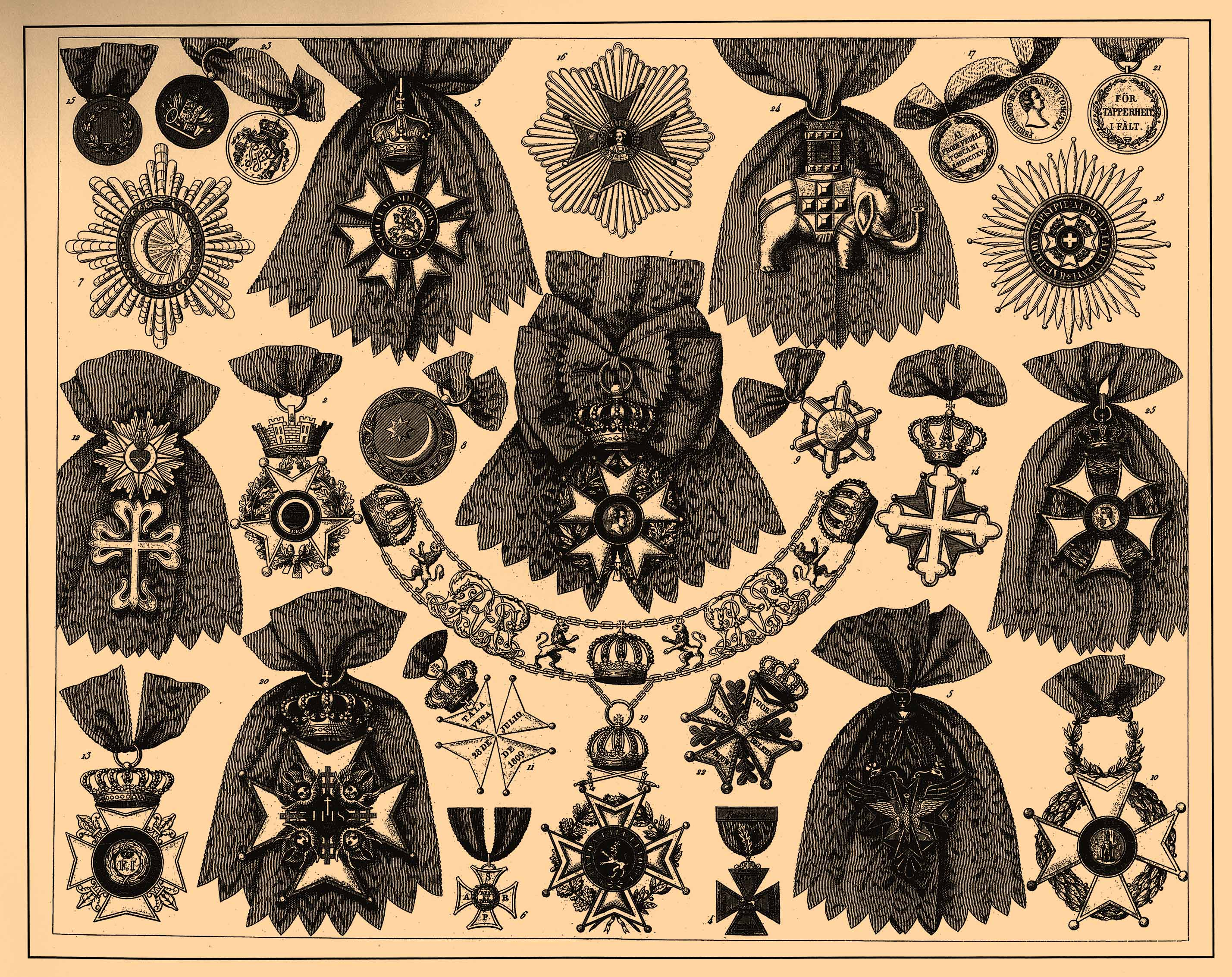 Illustration from Brockhaus and Efron Encyclopedic Dictionary (1890—1907)